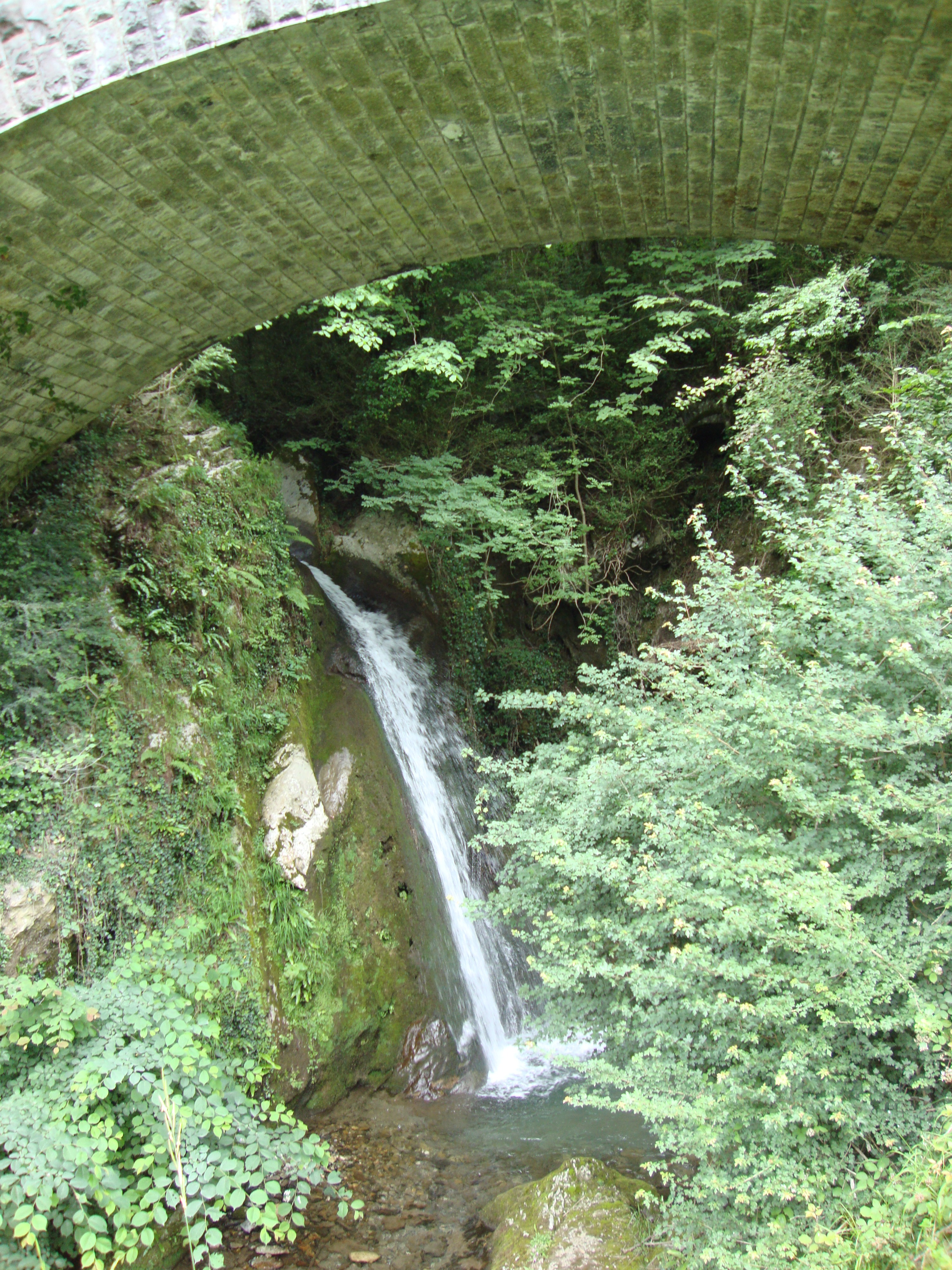 Osse-en-Aspe (Pyr-Atl, Fr) waterfall of Espalungue river at location Lacroix